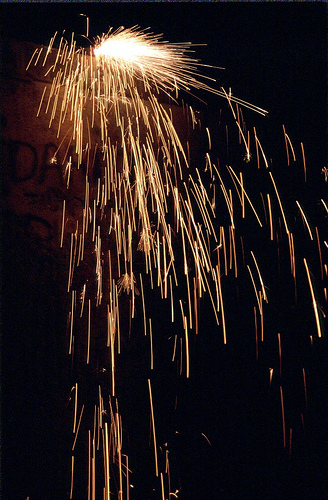 Sparks from cutting torch illuminate the Berlin Wall as it is dismantled. Brandenburg Gate, Berlin, feb 1990